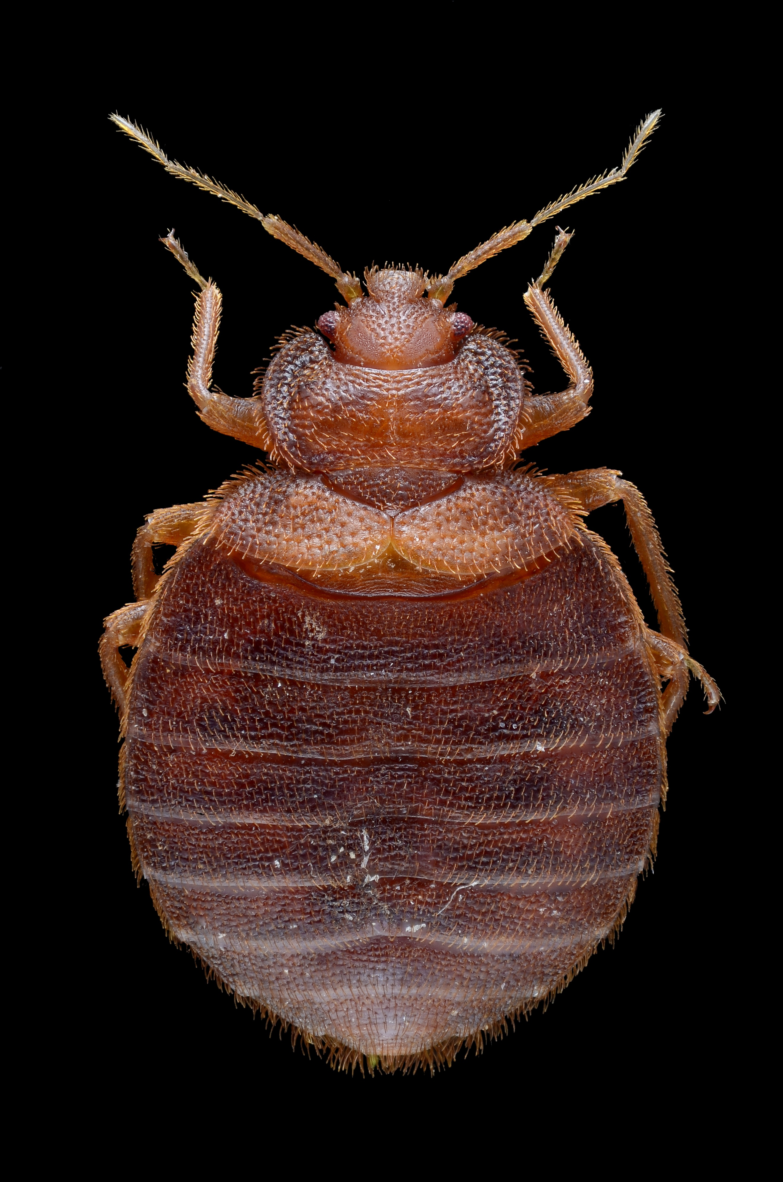 Adult female of the bed bug - Cimex lectularius Scale: bug length ~ 5 mm Technical settings : - Focus stack of 22 images - Componon 28 mm f/4 at f/4 reversed on extension tubes